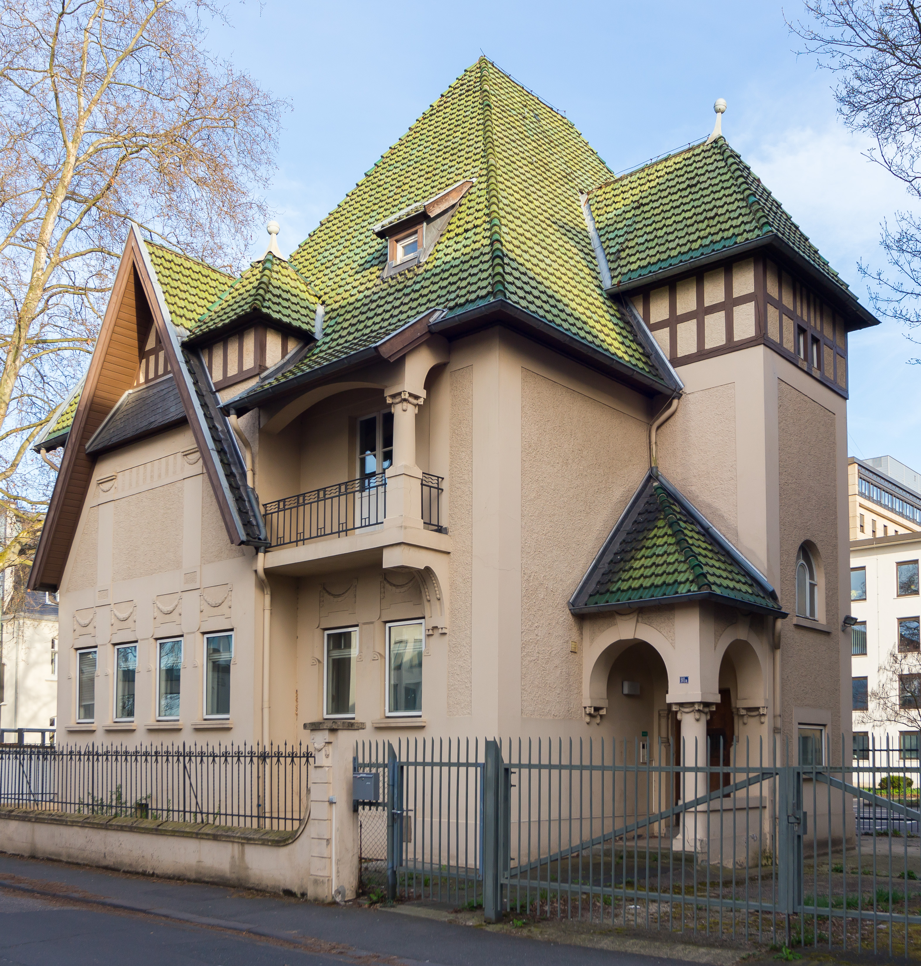 Villa Scheidgen, Adenauerallee 91a, Bonn: view from west